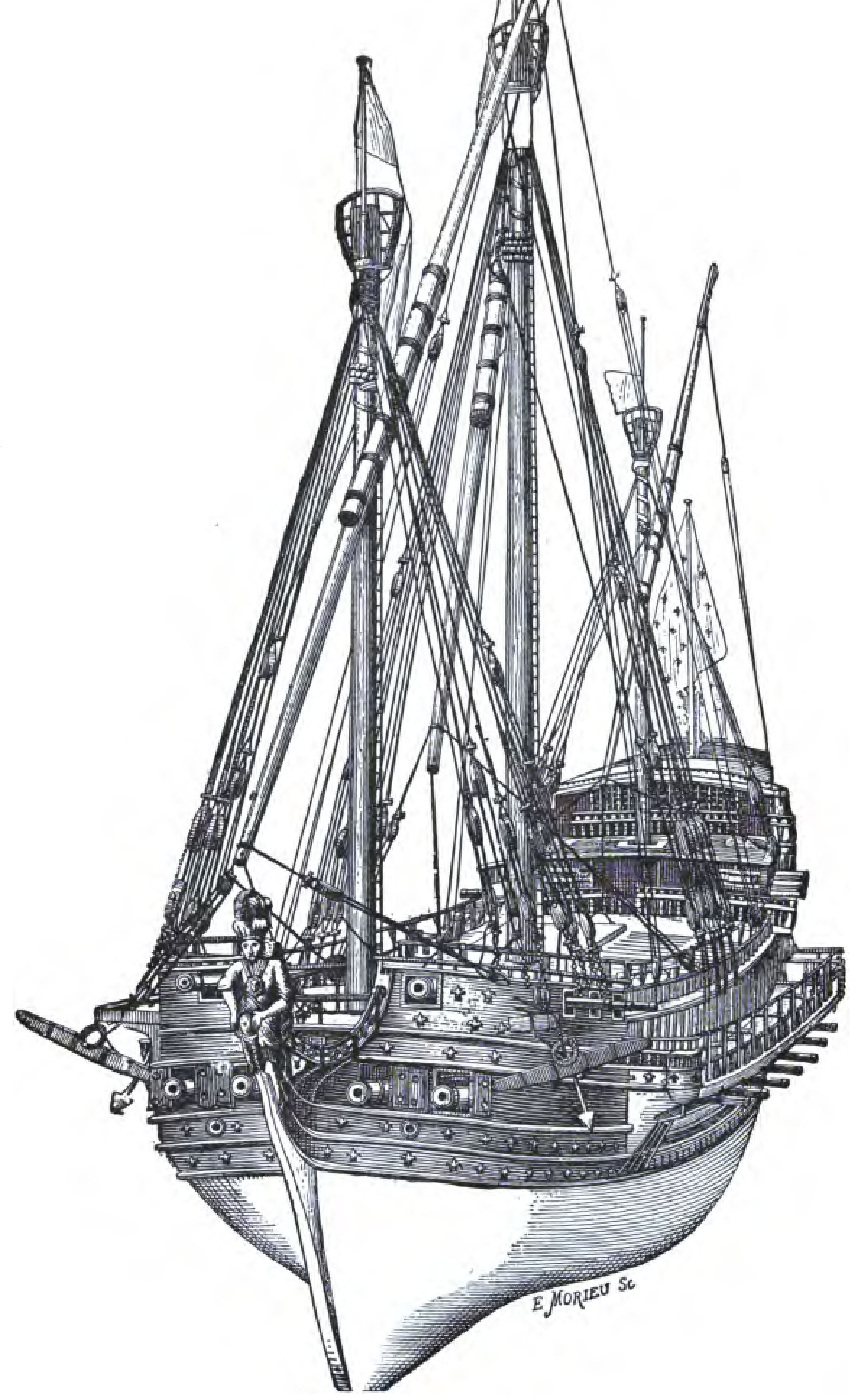 Galleass of the 17th century, found in The Story of the Barbary Corsairs' by Stanley Lane-Poole, published in 1890 by G.P. Putnam's Sons.